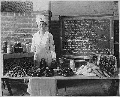 Mrs. Mina C. Winkle, Newark, New Jersey: President of the Woman's Political Union of New Jersey for 8 years, Head of Lecture Bureau of Food Administration. Date: 1917 or 1918World War I woman - Woman's Political Union - homefront food administration Image courtesy of National Archives. Created by the U.S. Food Administration